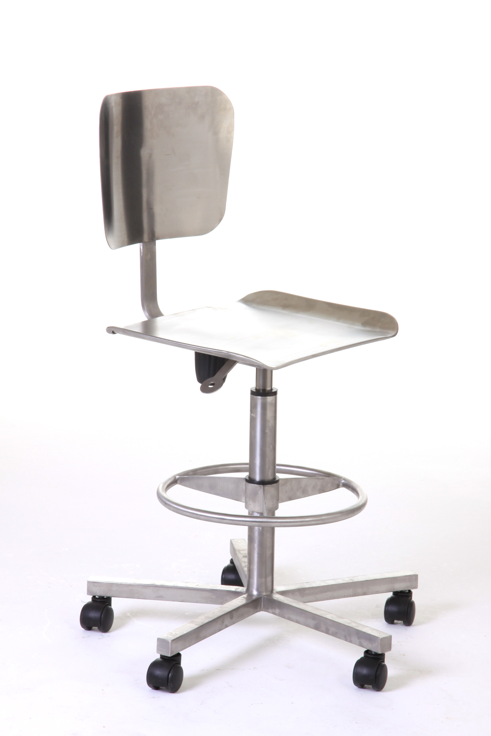 Stainless steel chair with pneumatic seat and caster wheels. There is also a pipe for feets. Very used in Pharmaceuticals industry in Brazil. Made by Palmetal